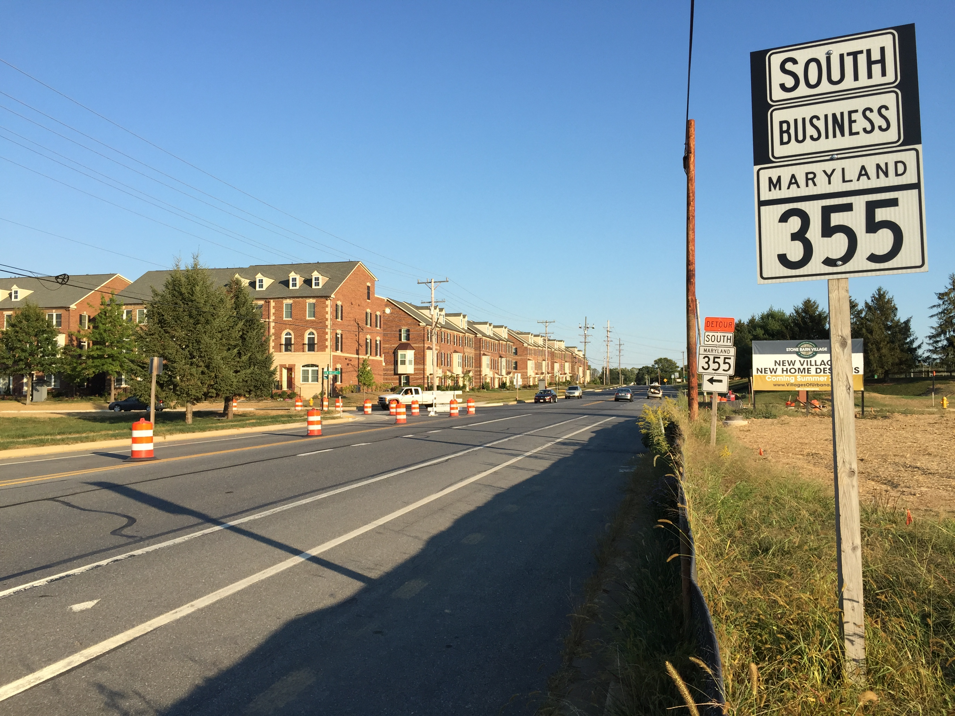 View south along Maryland State Route 355 Business (Urbana Pike) at Maryland State Route 355 (Worthington Boulevard) in Urbana, Frederick County, Maryland